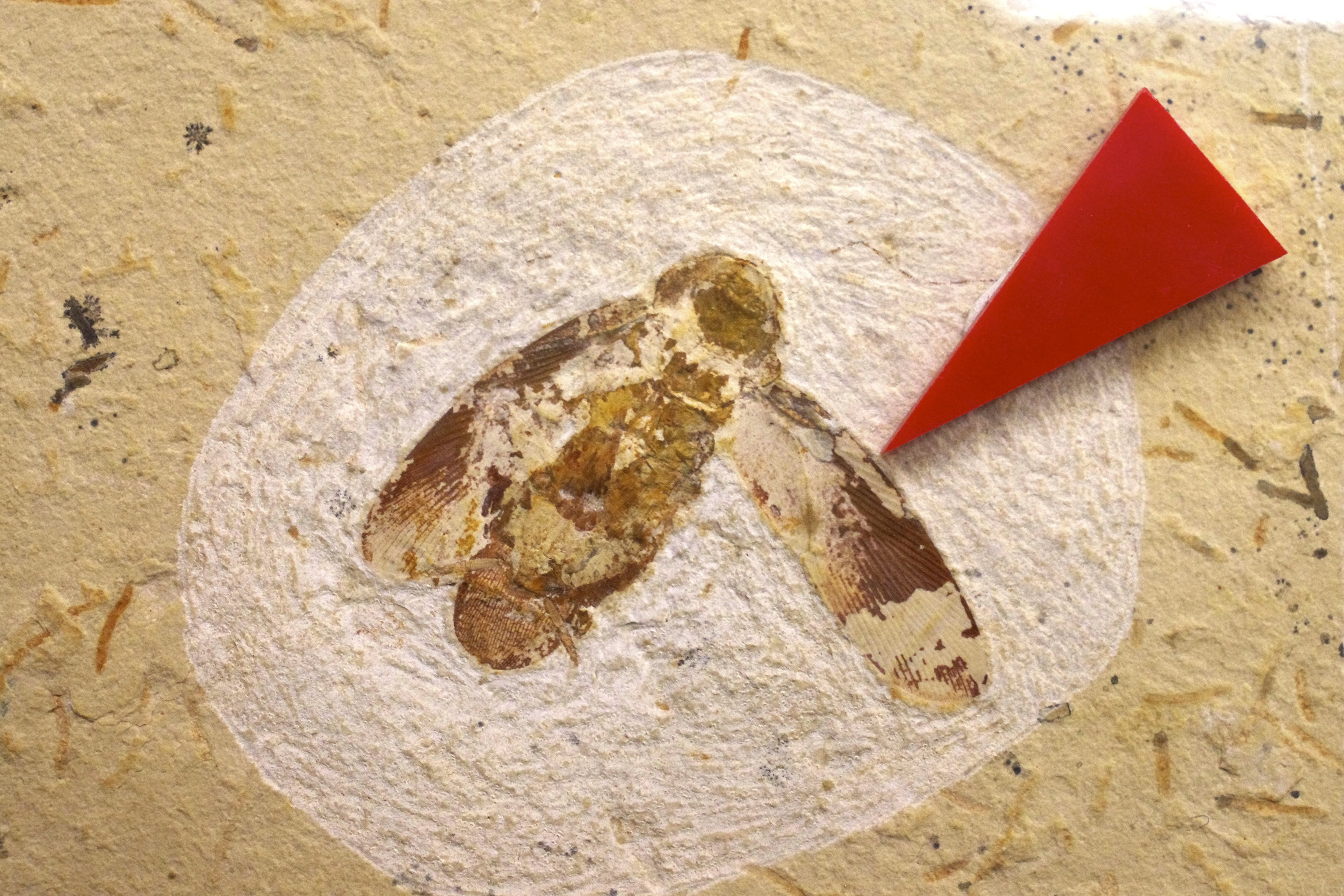 ゴキブリの化石 豊橋市自然史博物館 Toyohashi Museum of Natural History, Toyohasji city, Aichi, Japan